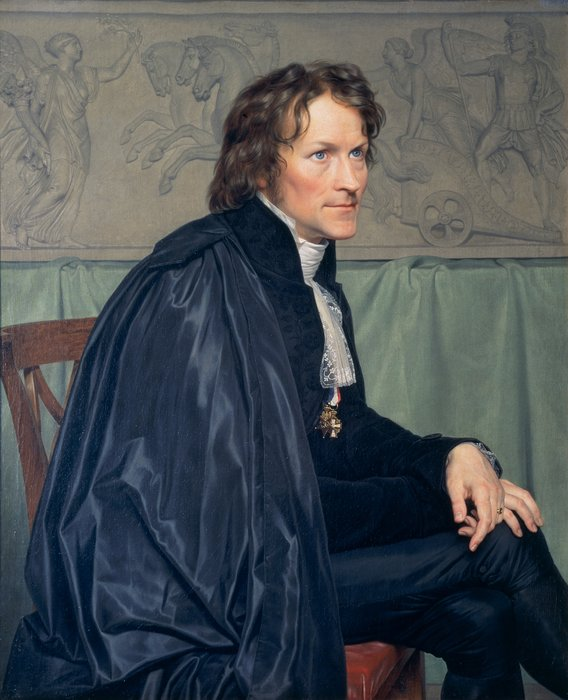 This is the first version painted by C.W. Eckersberg in 1814.